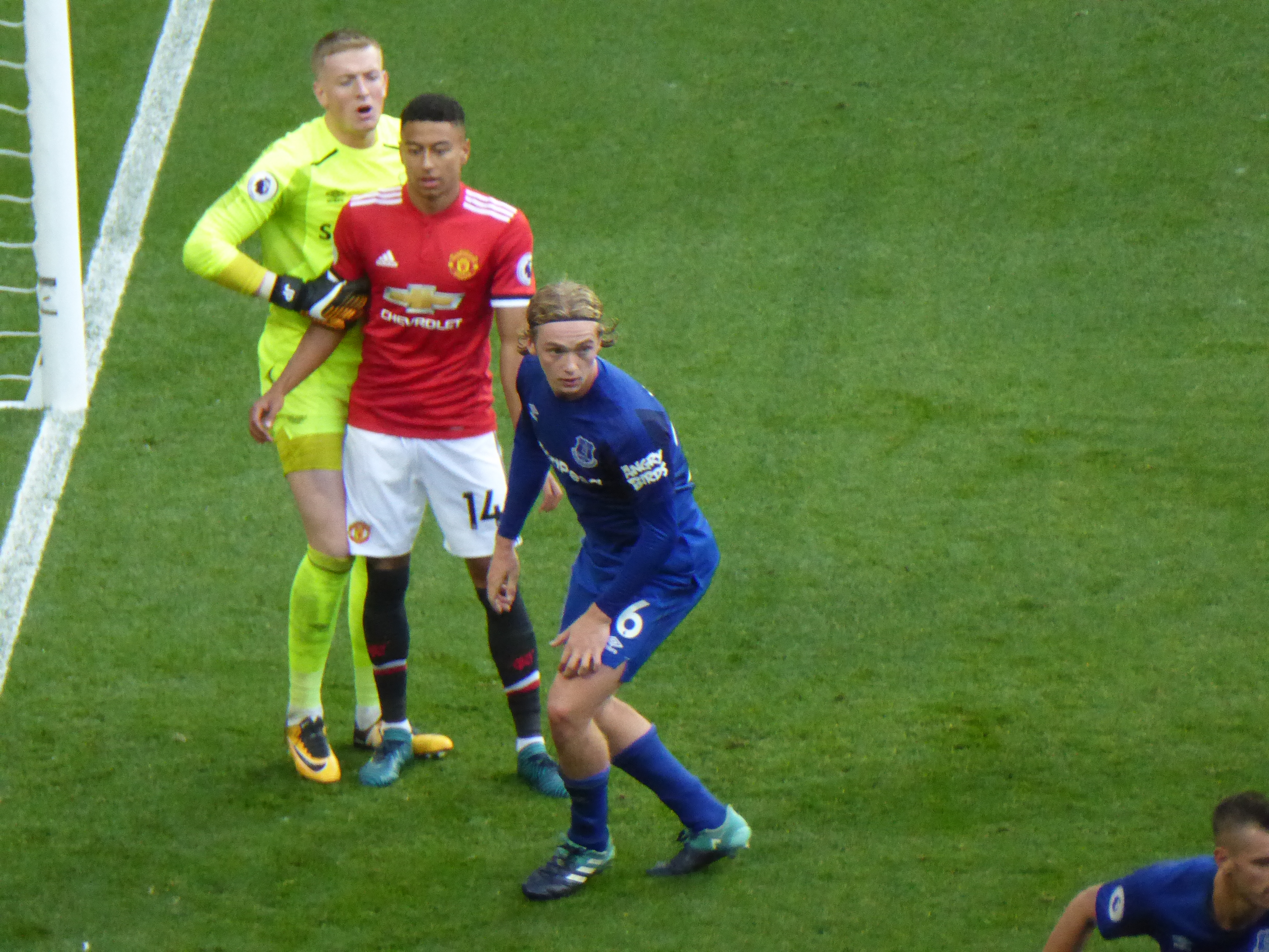 Manchester United v Everton (4-0), Premier League, Old Trafford, Manchester, Greater Manchester, England, 17 September 2017